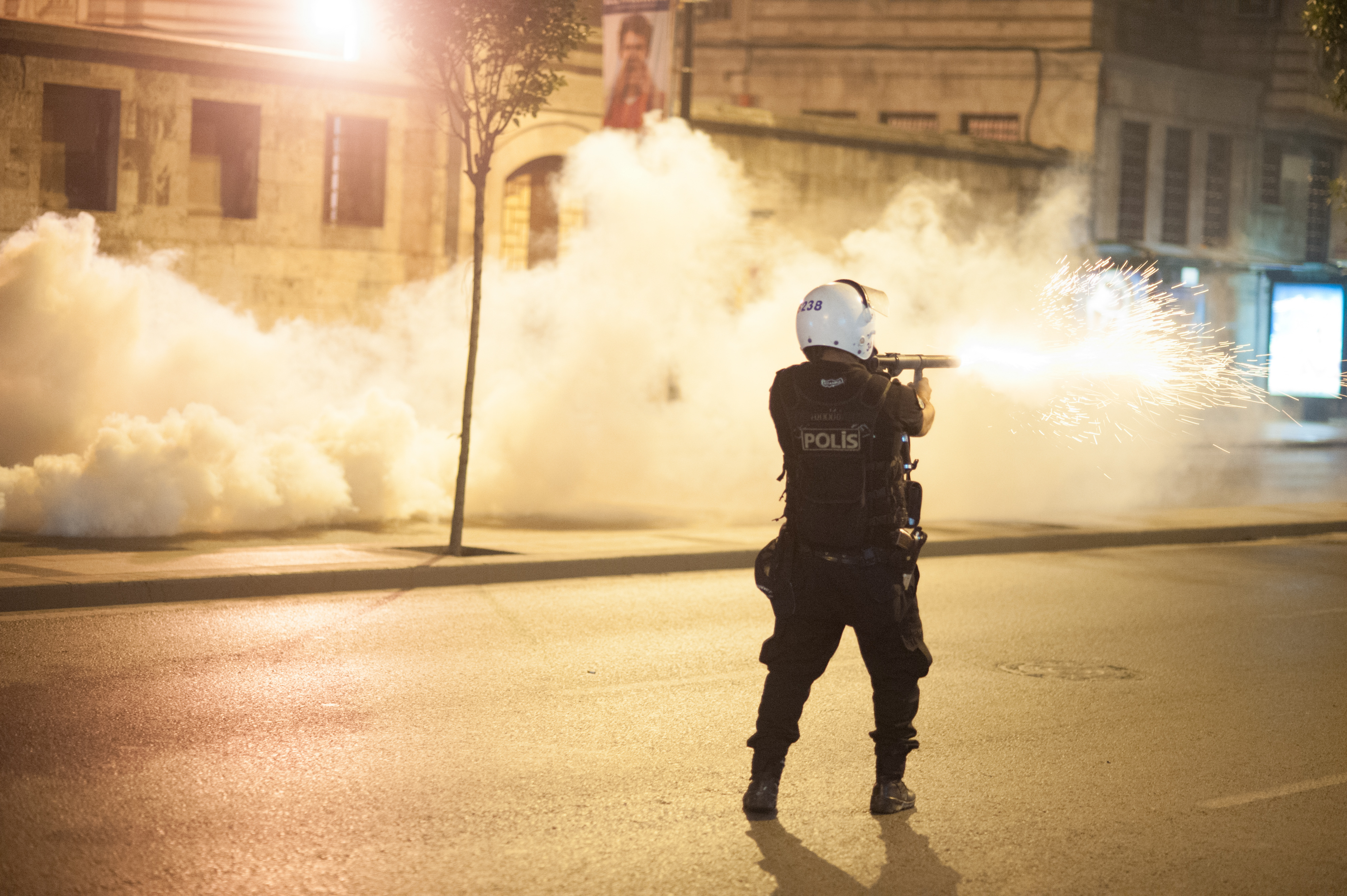 Police action during Gezi park protests in Istanbul. Events of June 16, 2013.